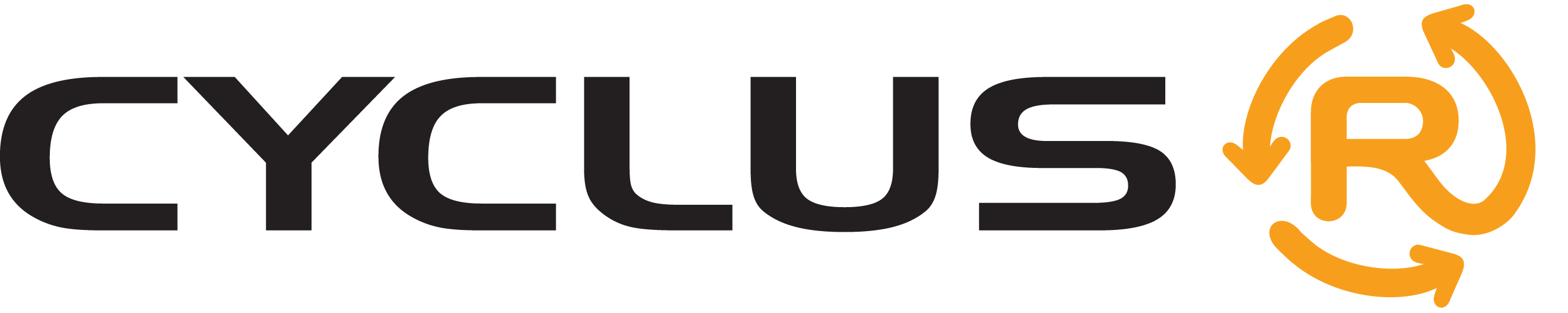 Cyclus logo